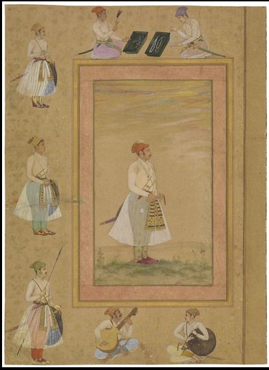 Indian, North India, Mughal (Shah Jahan Period) Page from the Late Shah Jahan Album: Ram Singh of Amber ca. 1650 - 58 Opaque watercolor and ink on paper 15.125 x 10.75 in. 38.4 x 27.3 cm. Nasli and Alice Heeramaneck Collection, Gift of Paul Mellon 68.8.64 Not on view